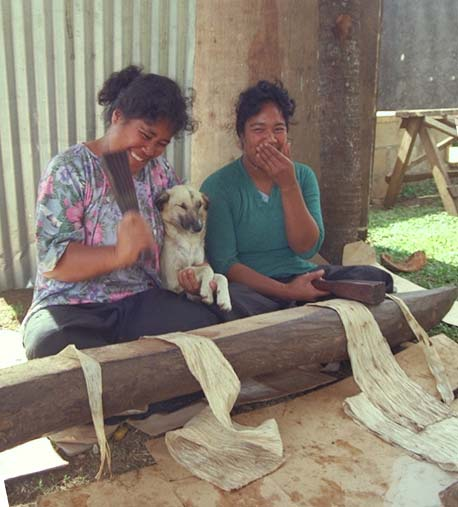 Women have fun when beating tapa in Tonga category:Images of Tonga